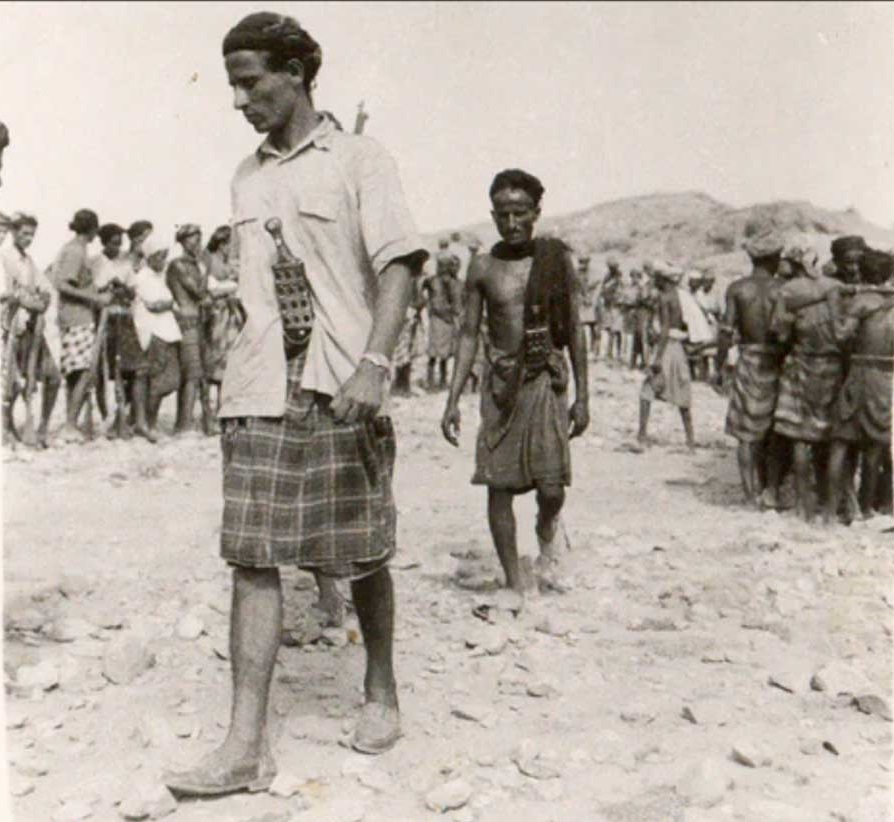 Abyan in, southern Yemen (1960s).